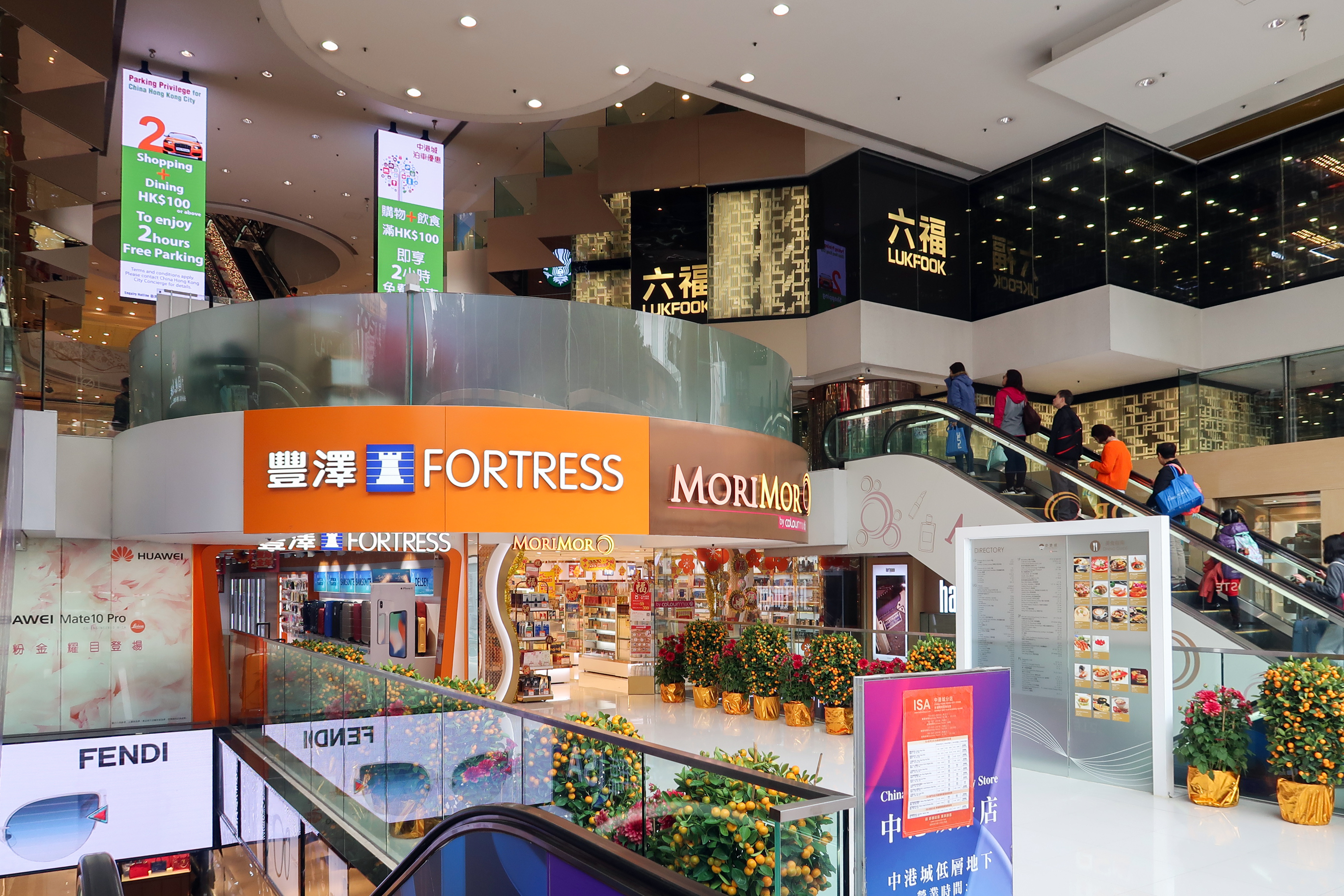 China Hong Kong City interior